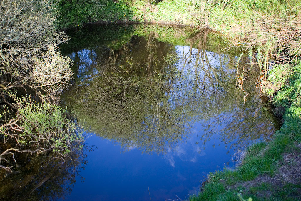 Shannon Pot; the difference between this and the previous photo is that the polarizer filter is turned 90deg and all the reflections on the water show up better